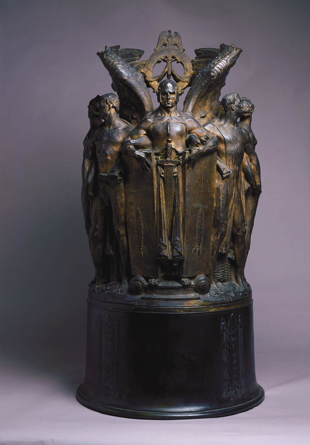 Preliminary model for Major George Gordon Meade Memorial, Smithsonian American Art Museum, Washington, D.C.